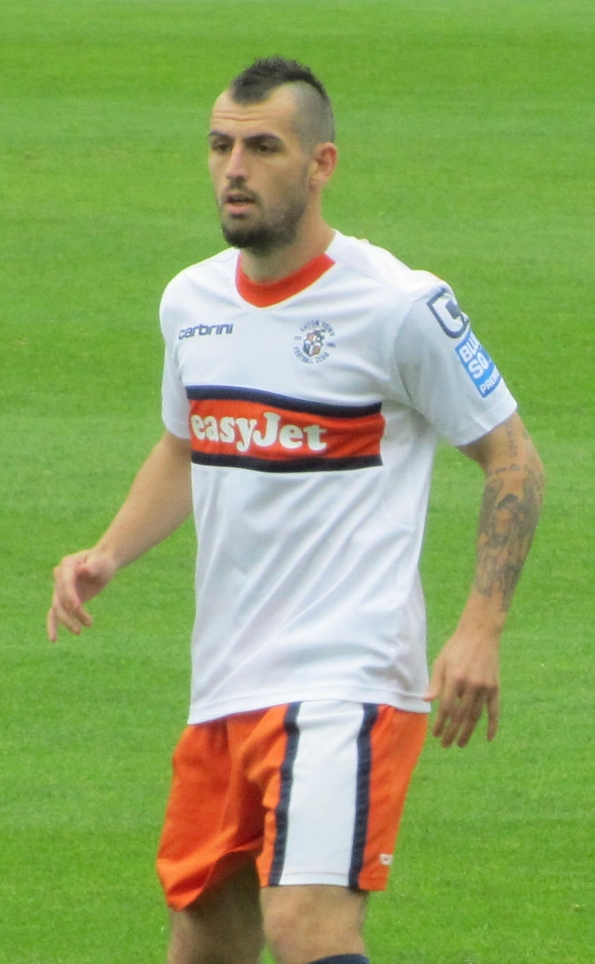 Alex Lawless playing for Luton Town against York City at Bootham Crescent, York on 24 September 2011